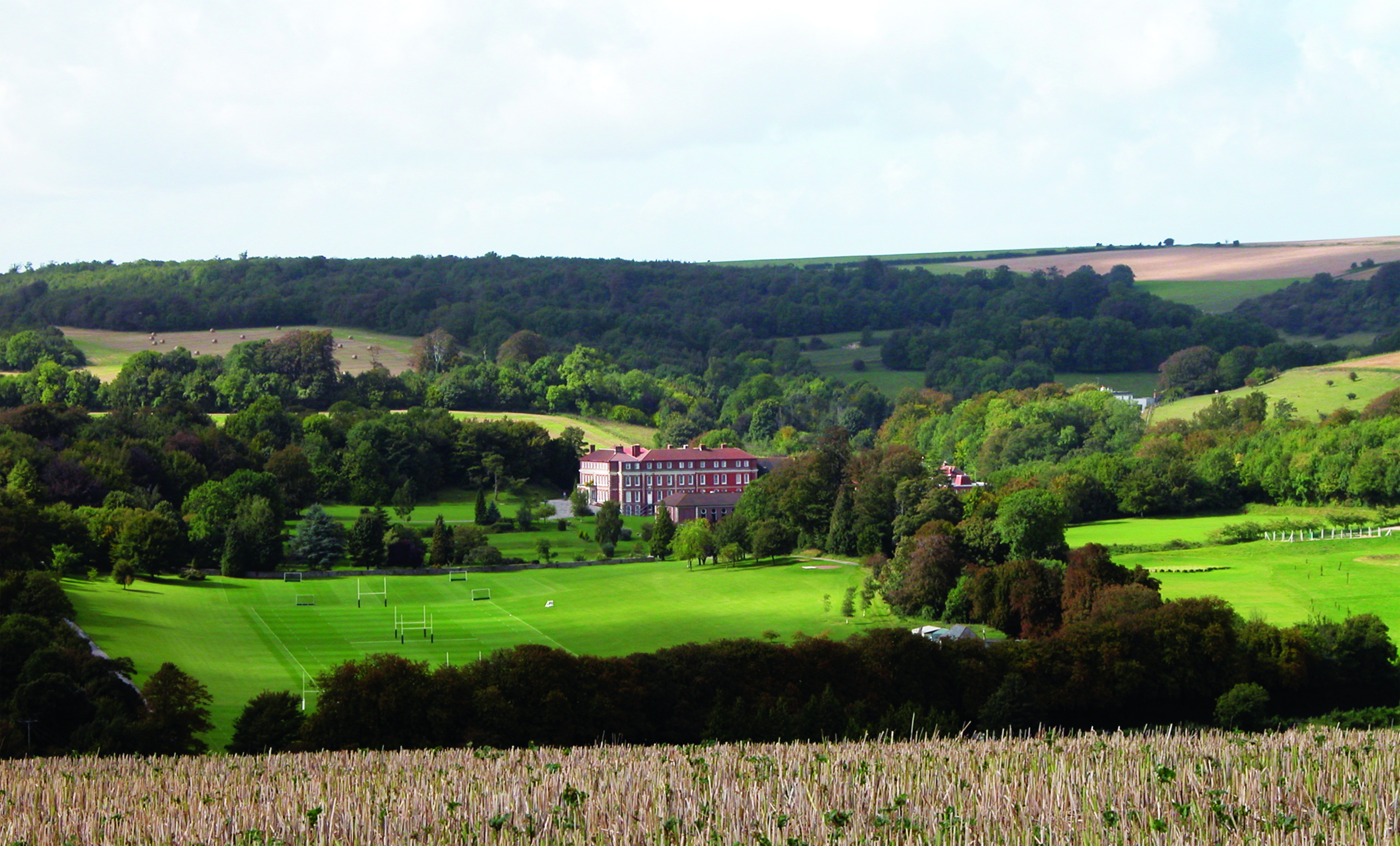 View of Windlesham House School from the South Downs